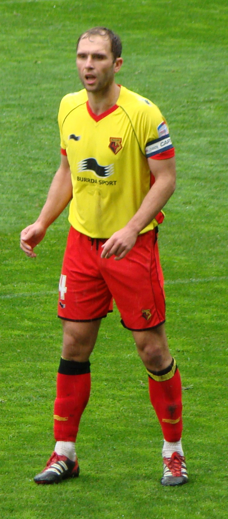 09/04/12 Cardiff v Watford, Championship, Cardiff City Stadium, Cardiff, Wales